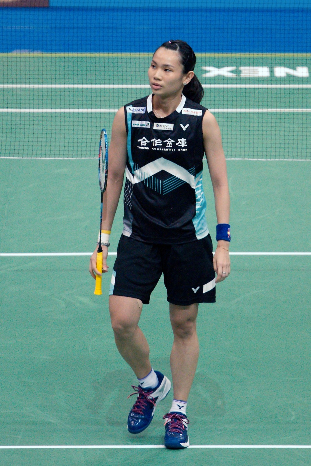 Yonex Chinese Taipei Open 2018 - R2 - Tai Tzu-ying vs CHIANG Ying Li 01